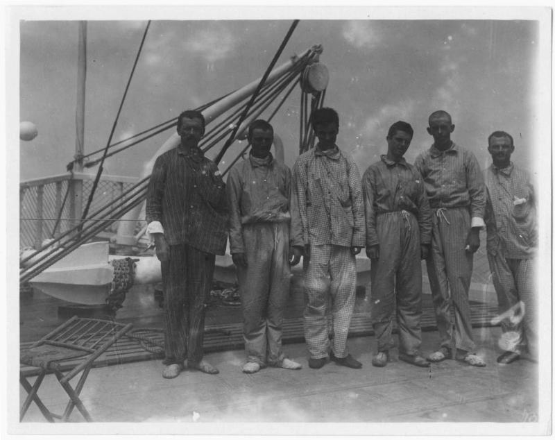 Group of typhoid patients convalescing on the hospital ship Relief